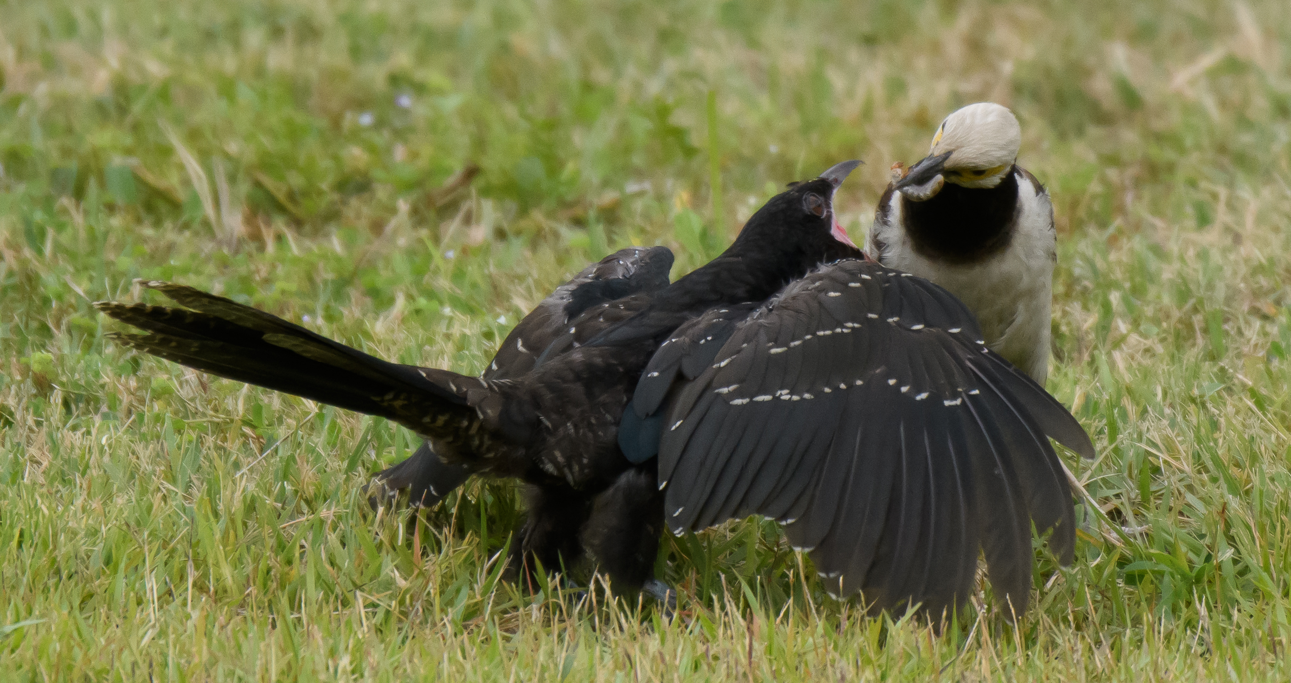 An Asian koel (Eudynamys scolopaceus) being fed by a black-collared starling (Gracupica nigricollis) in Discovery Bay, Hong Kong.